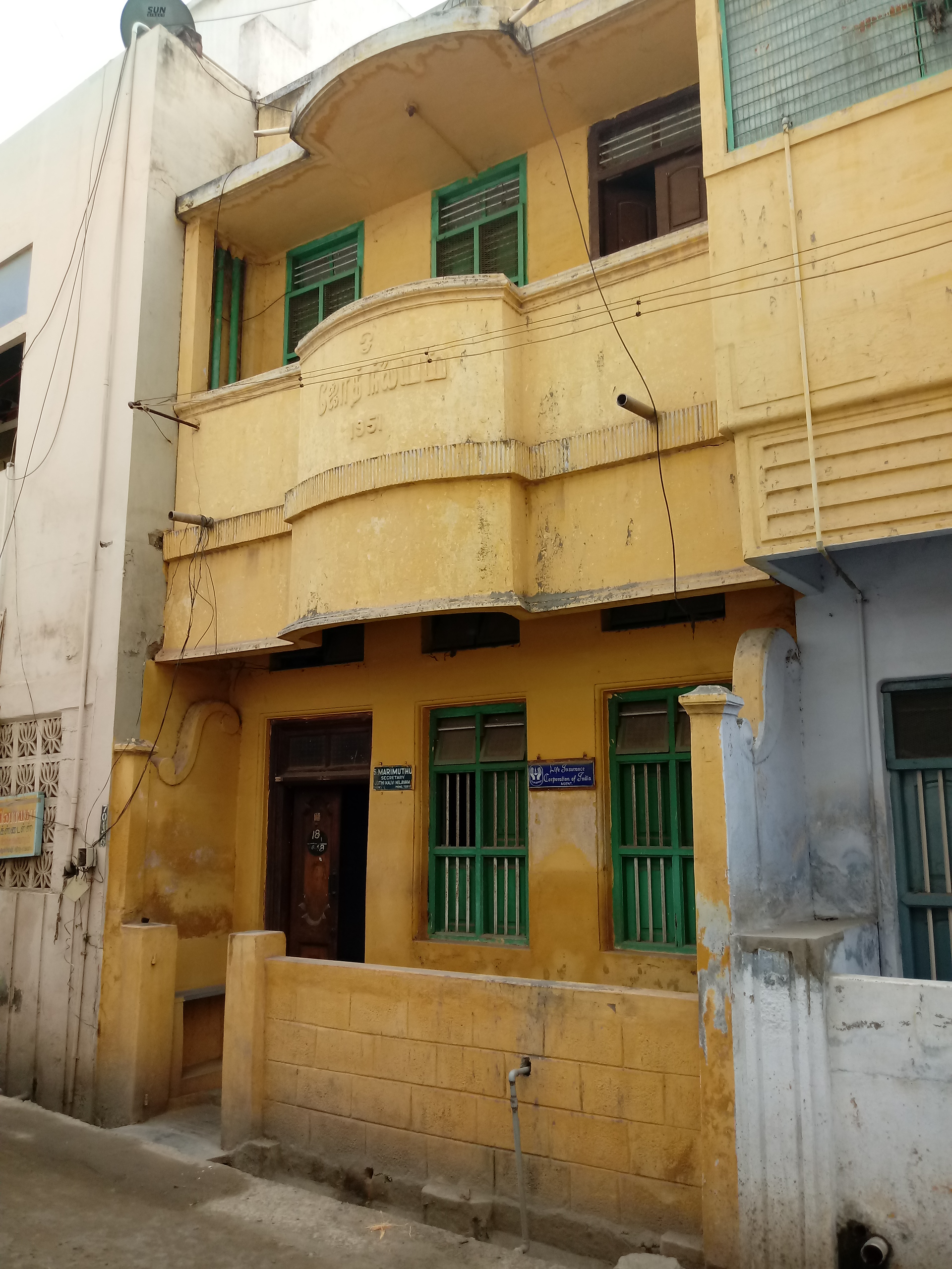 Erode, 18 Alahiri Str - Srinivasa Ramanujan's birth place (Source)